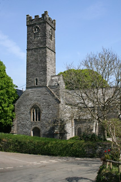 Original description by Tony Atkin: Quethiock is pronounced Gwithick. This parish church occupies a tight space near the centre of the village. The view from the west shows off the very unusual design of the church tower. Quethiock is located in Cornwall, United Kingdom. This church is dedicated to St. Hugh and belongs to the Anglican Diocese of Truro. It is not clear which Hugh is meant, see Nicholas Orme: The Saints of Cornwall, Oxford University Press 2000, ISBN 0-19-820765-4, p. 143.